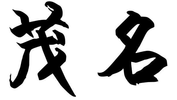 Maoming in Chinese